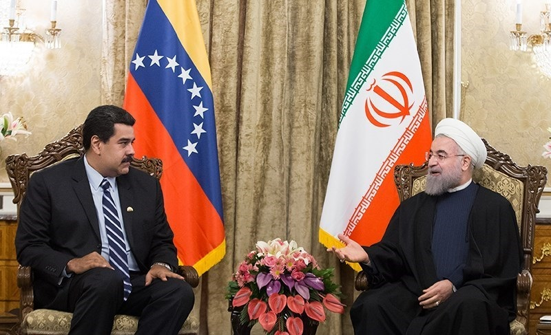 Iranian President meeting with Venezuelan President Nicolás Maduro in Saadabad Palace